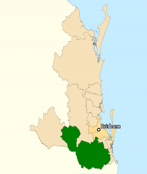 Division of Wright 2010 This image incorporates data that is: © Commonwealth of Australia (Australian Electoral Commission) 2009